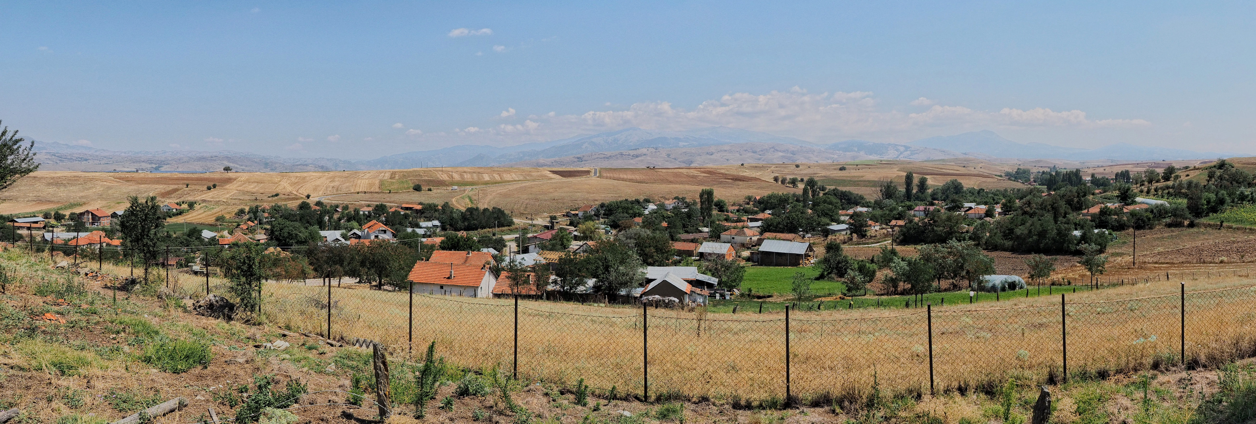 Germijan, Novaci, Republic of Macedonia